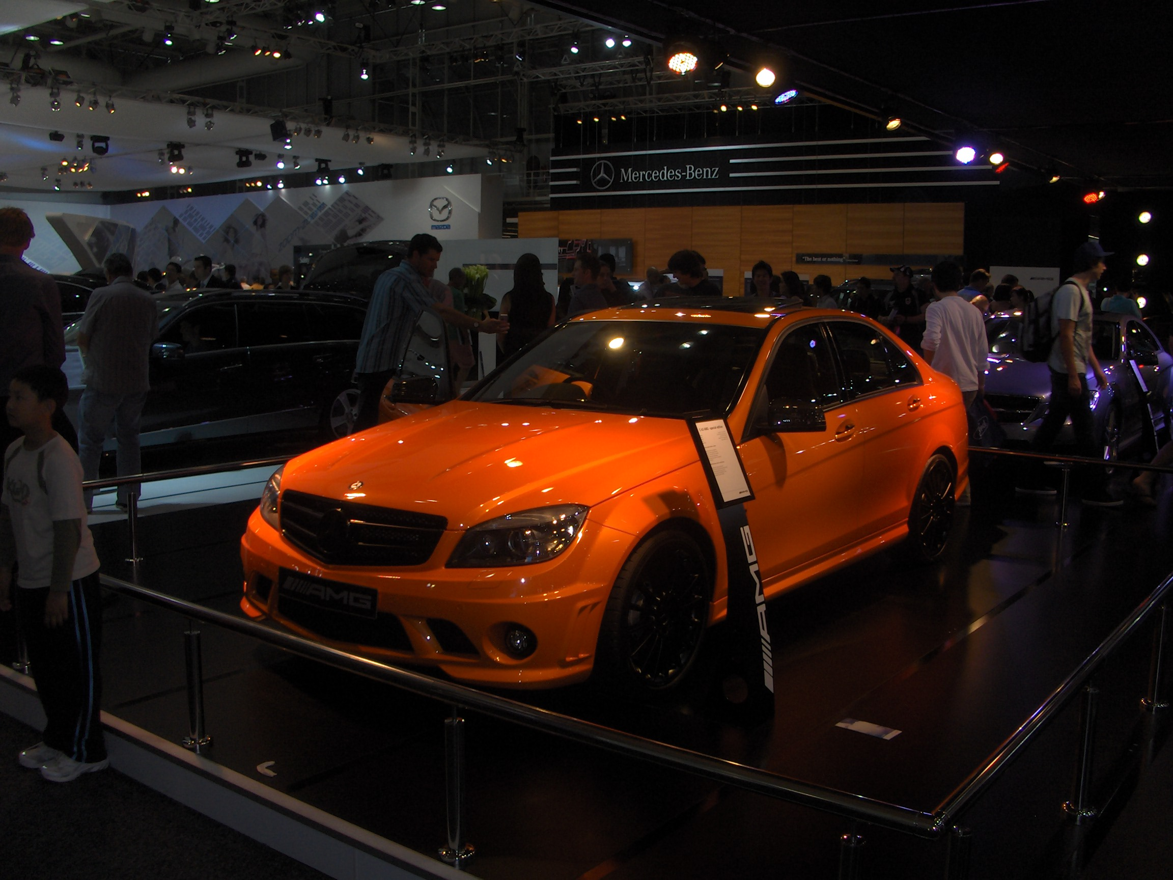 A Mercedes-Benz C63 AMG at the 2010 AIMS.